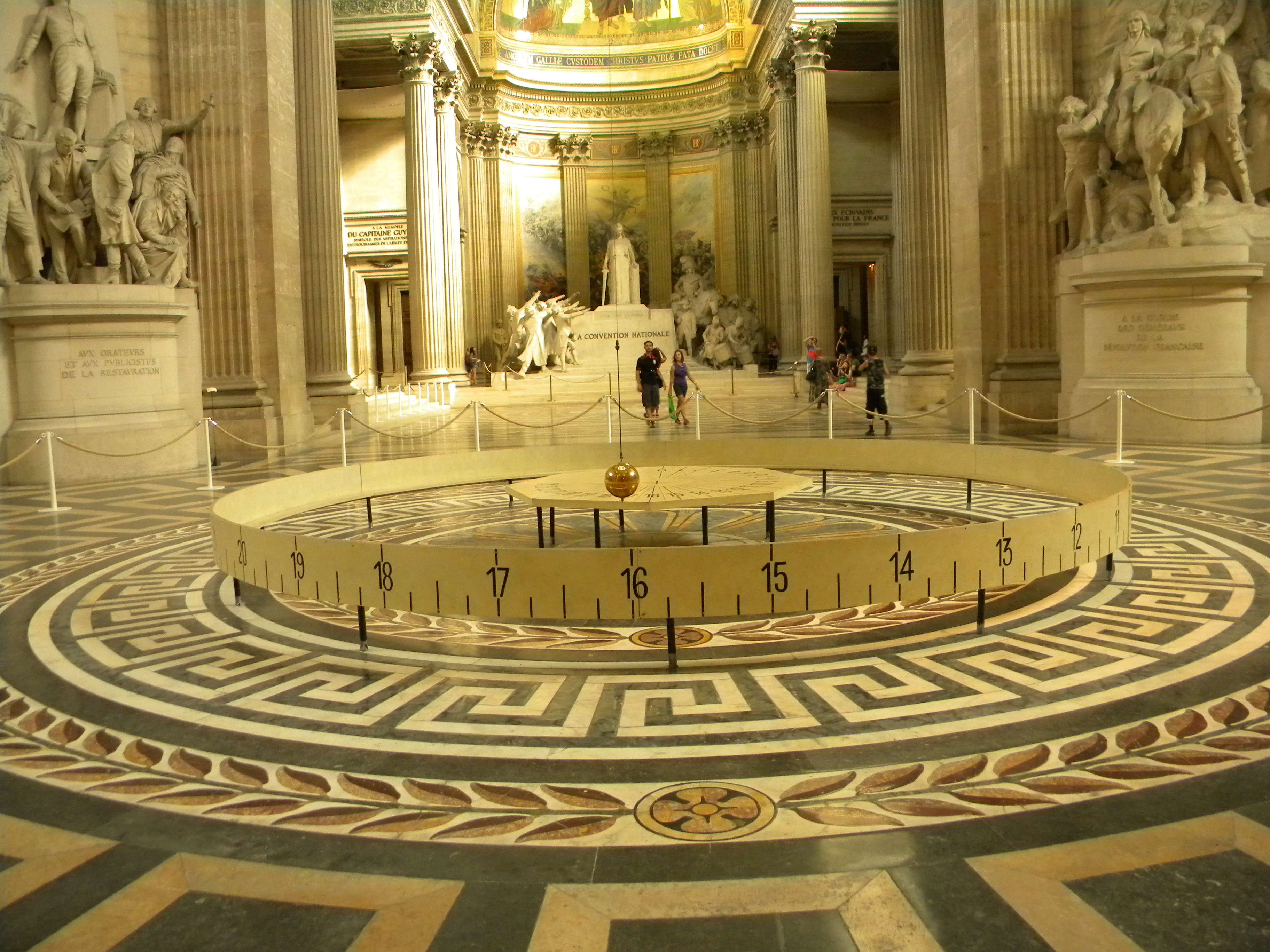 PANTHEON (The Pendule of Foucault), Paris